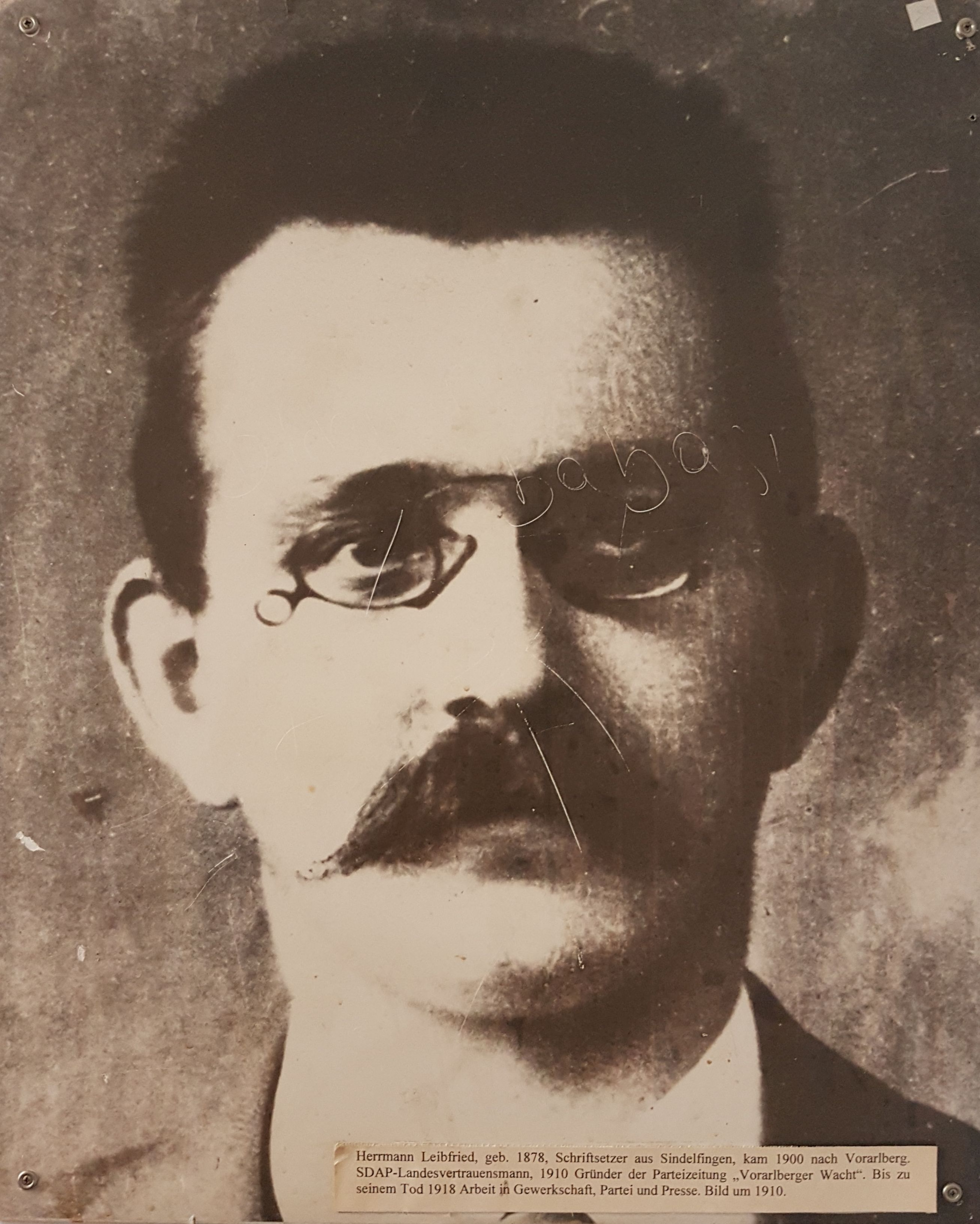 Photo by Hermann Leibfried (1878-1918) in an exhibition of Volkshilfe Vorarlberg. Typesetter from Sindelfingen. He came to Vorarlberg in 1900. Founder of the party newspaper: "Vorarlberger Wacht". Picture created around 1910.